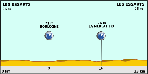 Profil of the 2nd stage of the Tour de France 2011